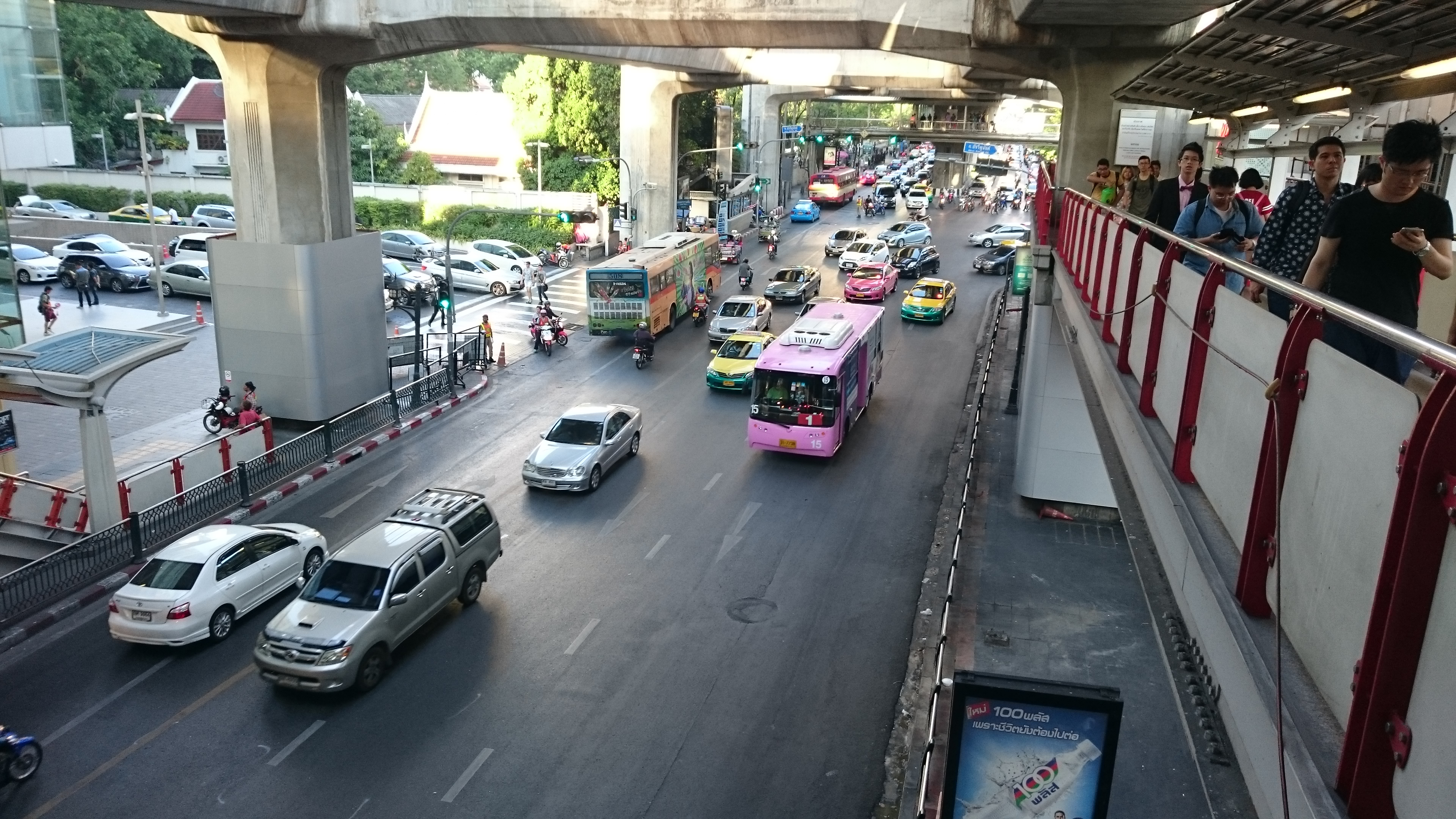 Bangkok, Thailand